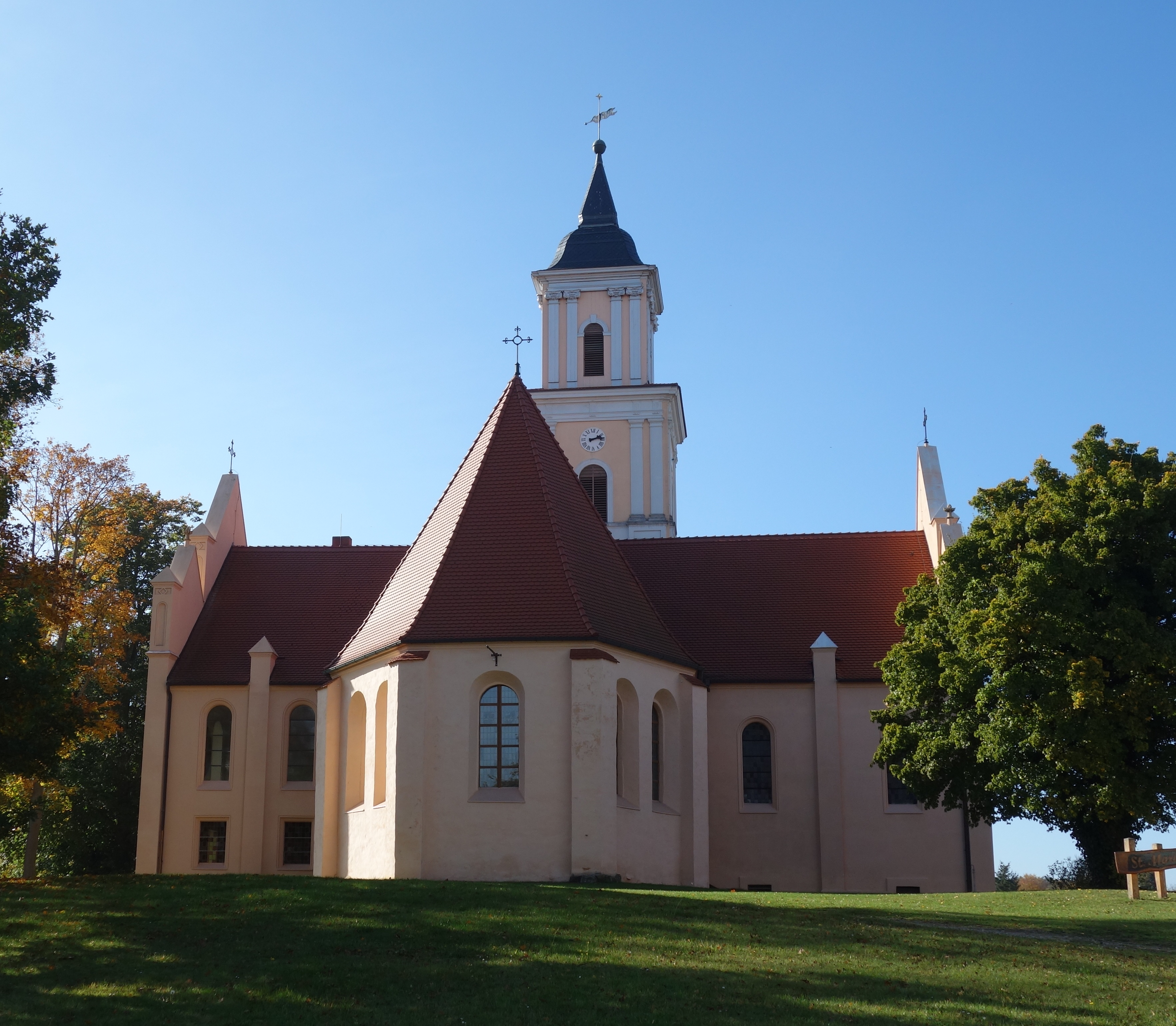 Eastern view of St. Mary's Church on the Hill in Boitzenburg, Boitzenburger Land municipality, Uckermark district, Brandenburg state, Germany.